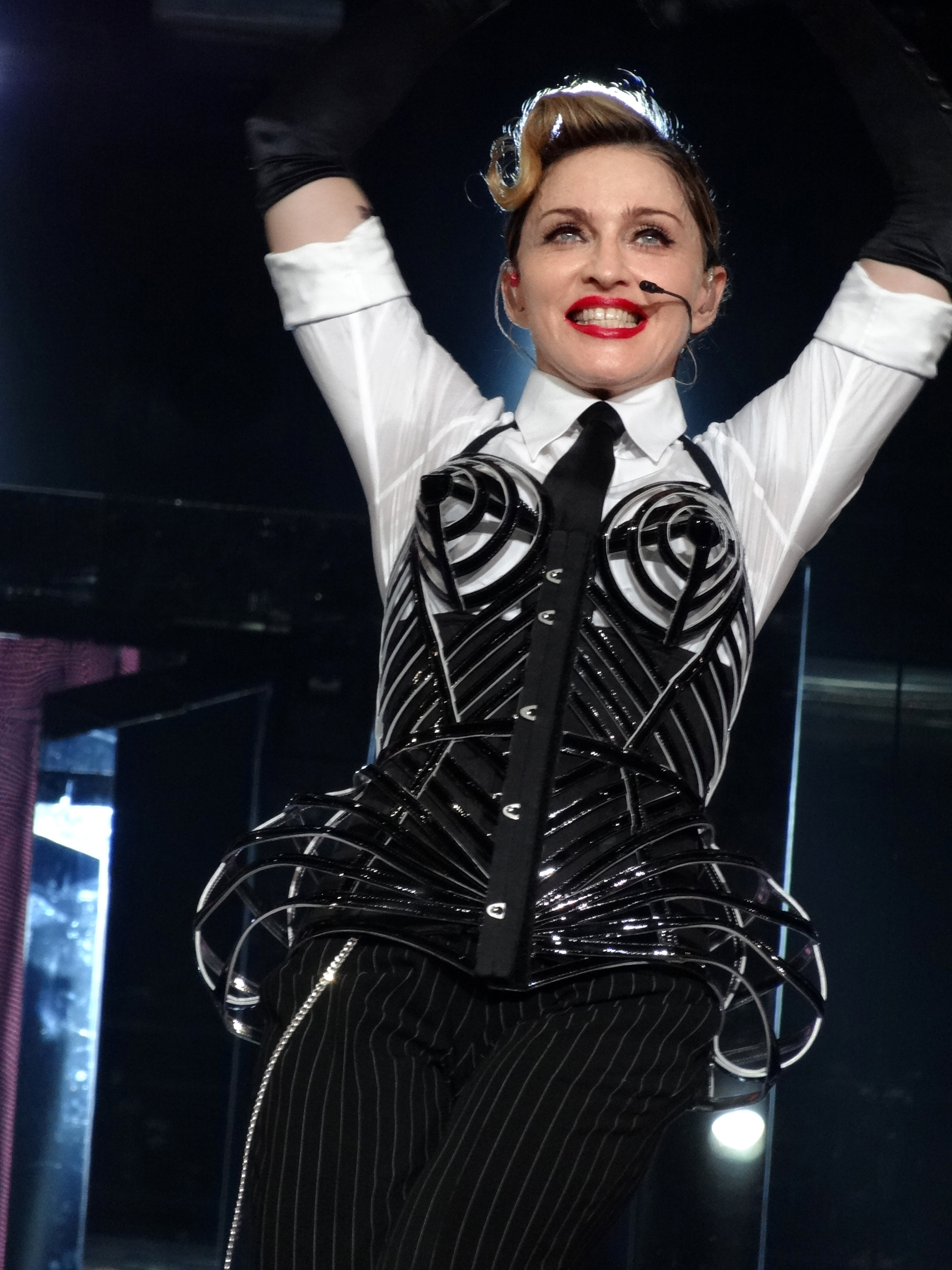 Madonna during her concert in Nice as part of her MDNA Tour on August 21, 2012.